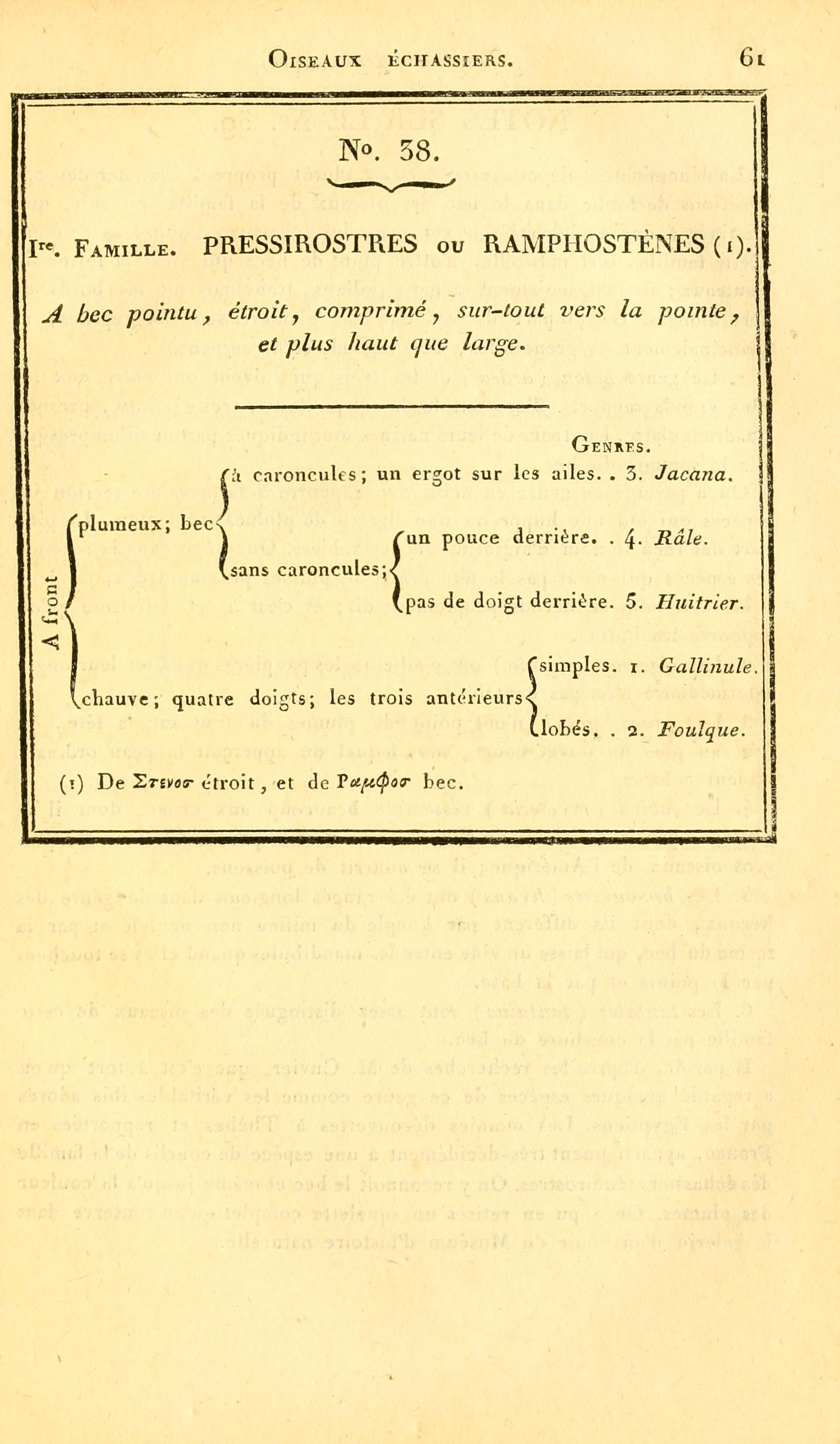 Dumeril zoologie analytique Aves page